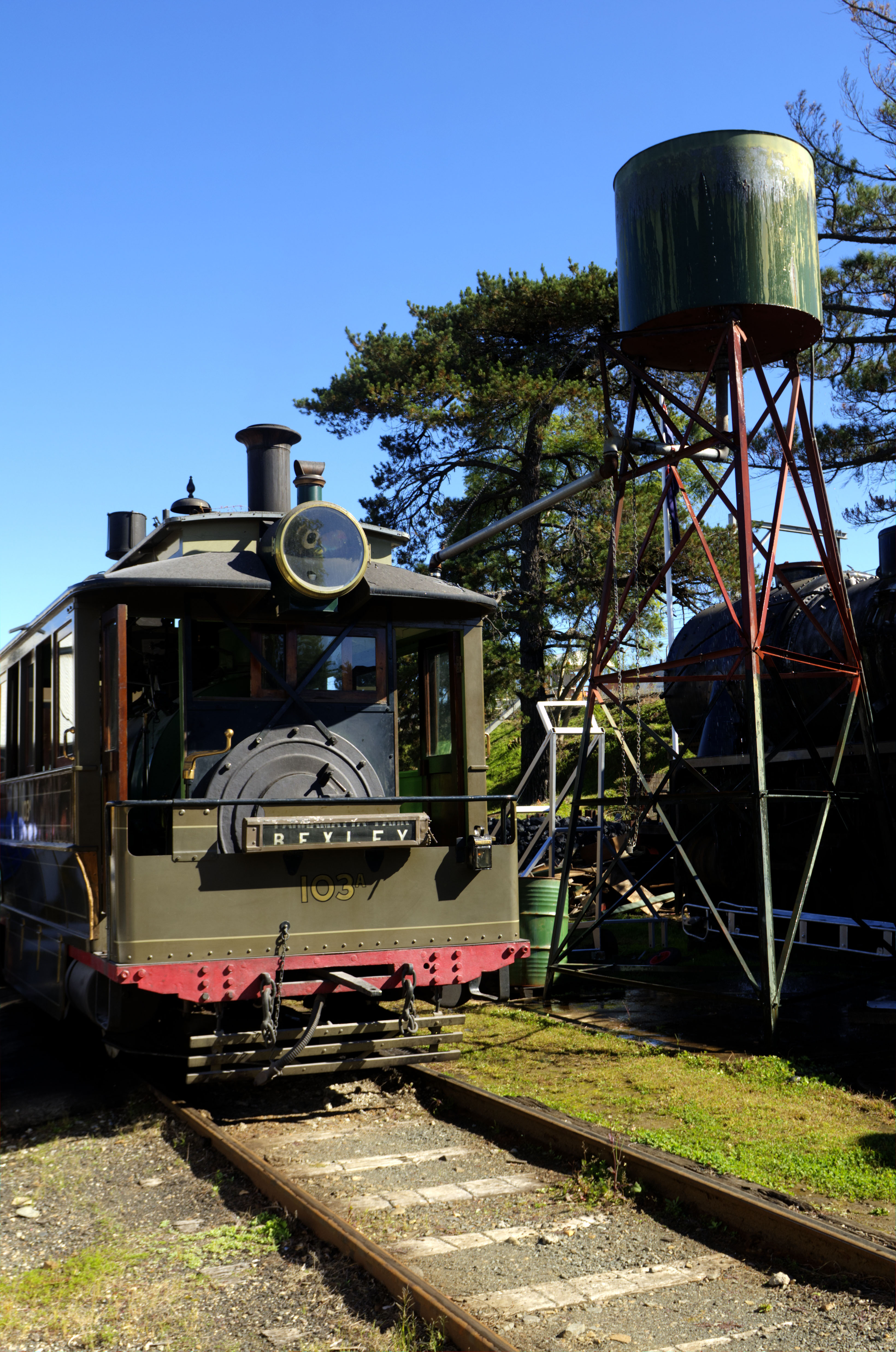 NSWGR Tram Motor 103A Wide View